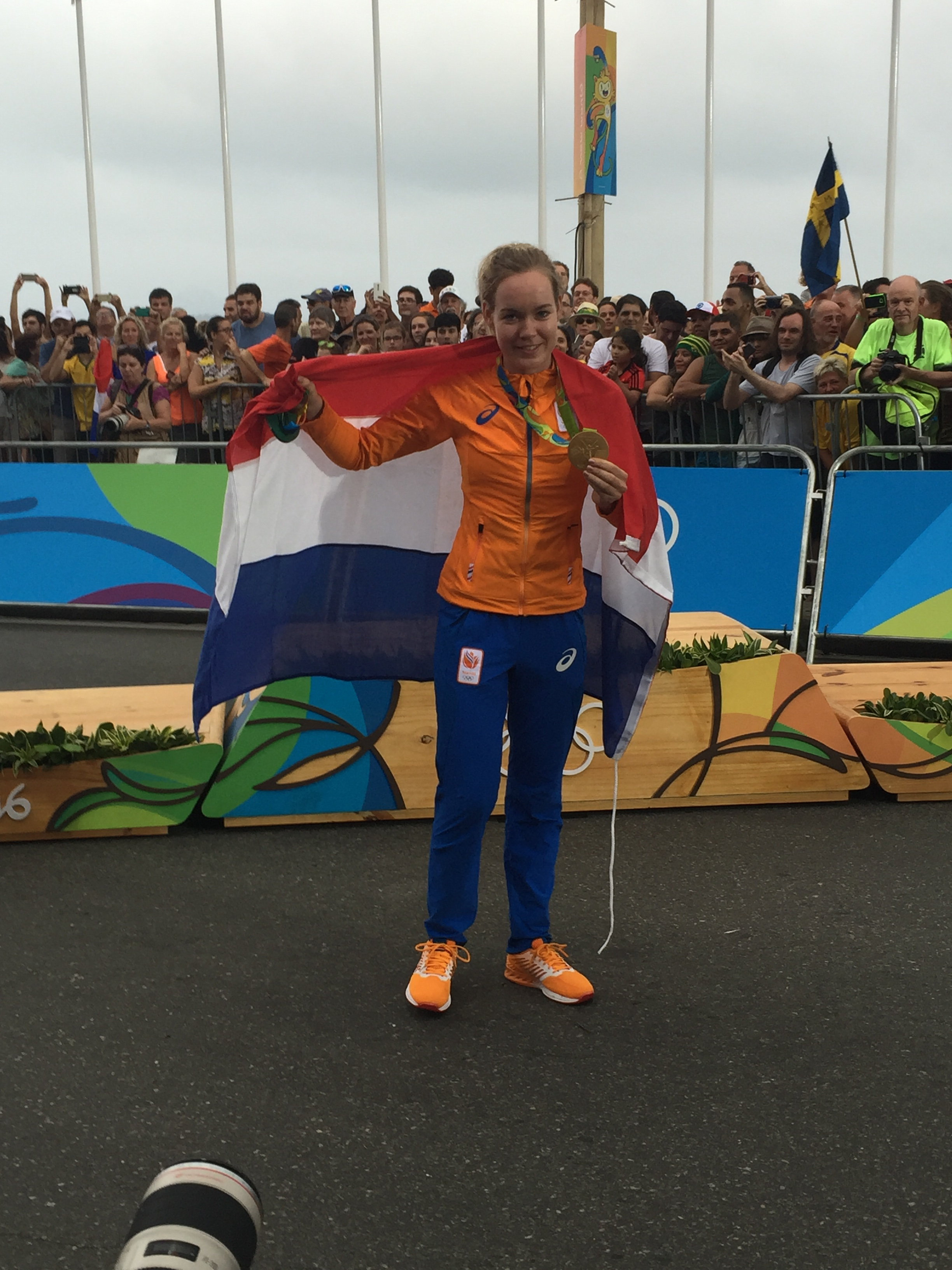 Rio 2016 - Women's road race